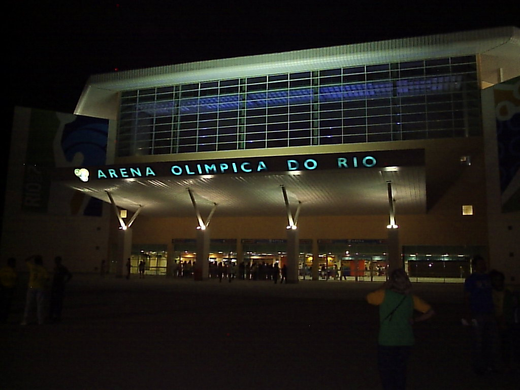 HSBC Arena in Rio de Janeiro, during the 2007 Pan Am Games.